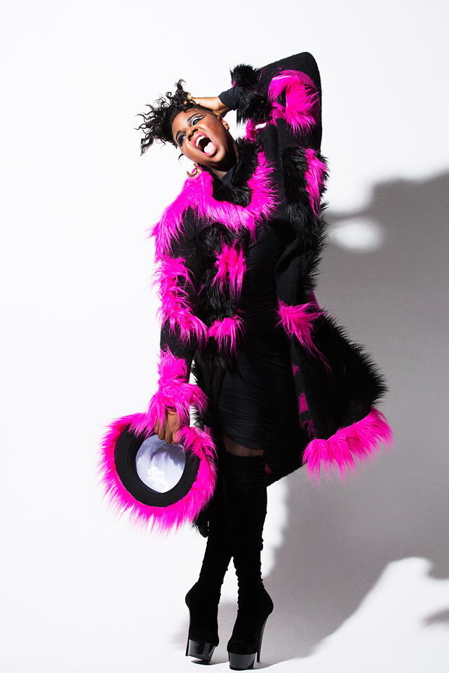 Alex Newell Publicity Photo